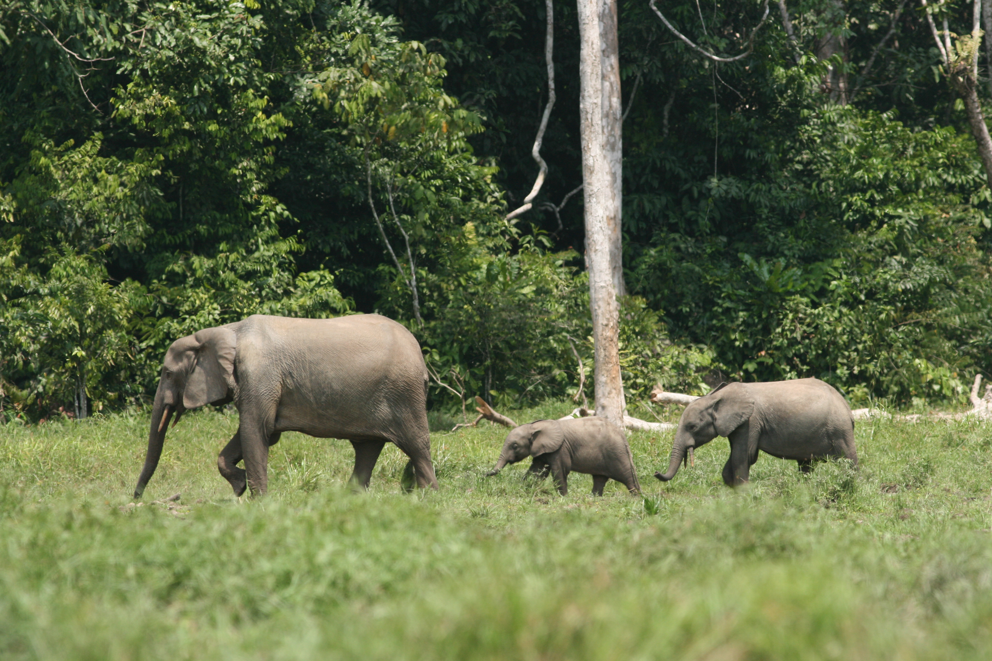 Forest elephant family group in a rainforest clearing. Credit: Richard Ruggiero/USFWS